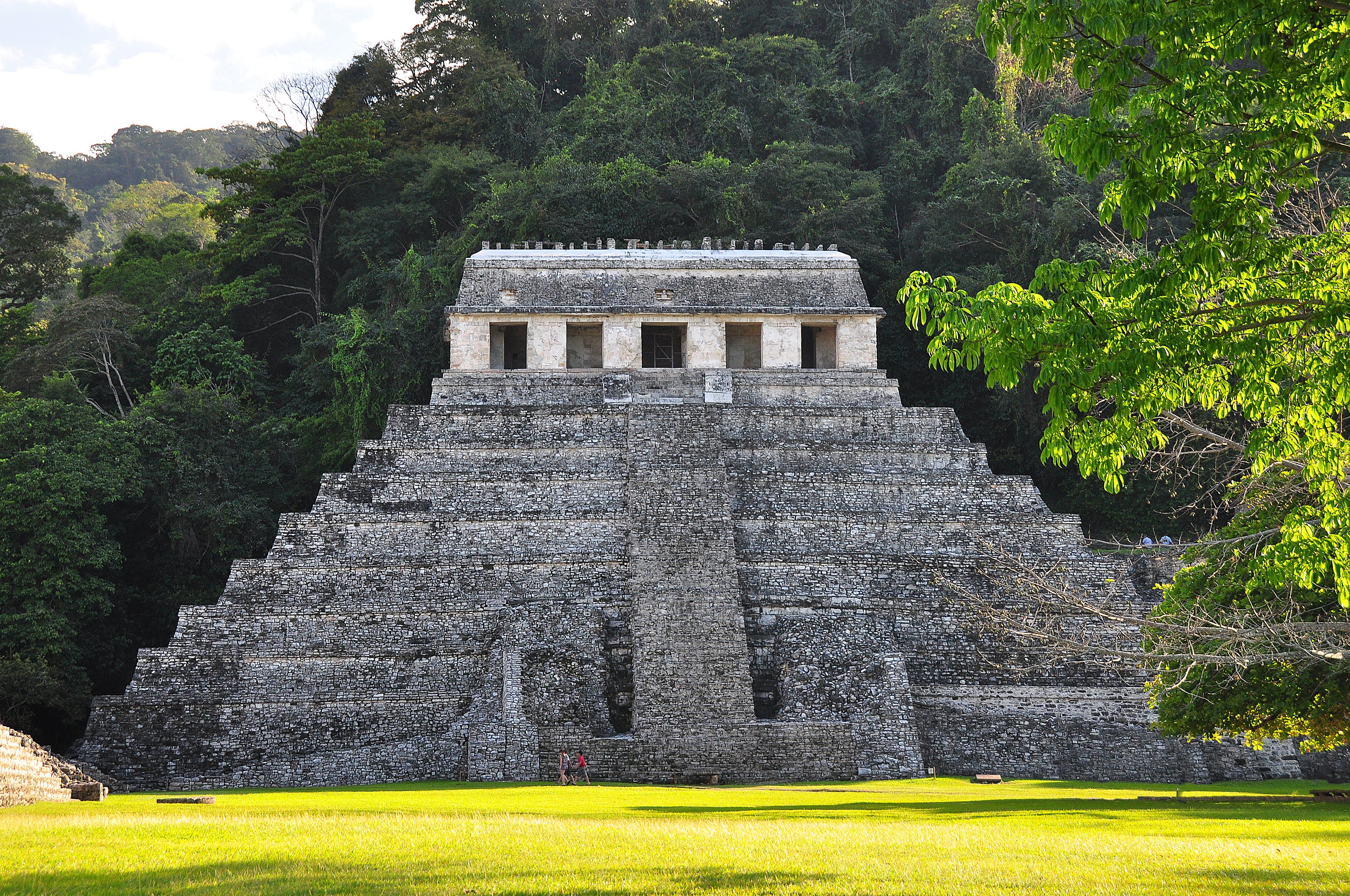 This is the Pacal tomb, at Palenque, Mexico